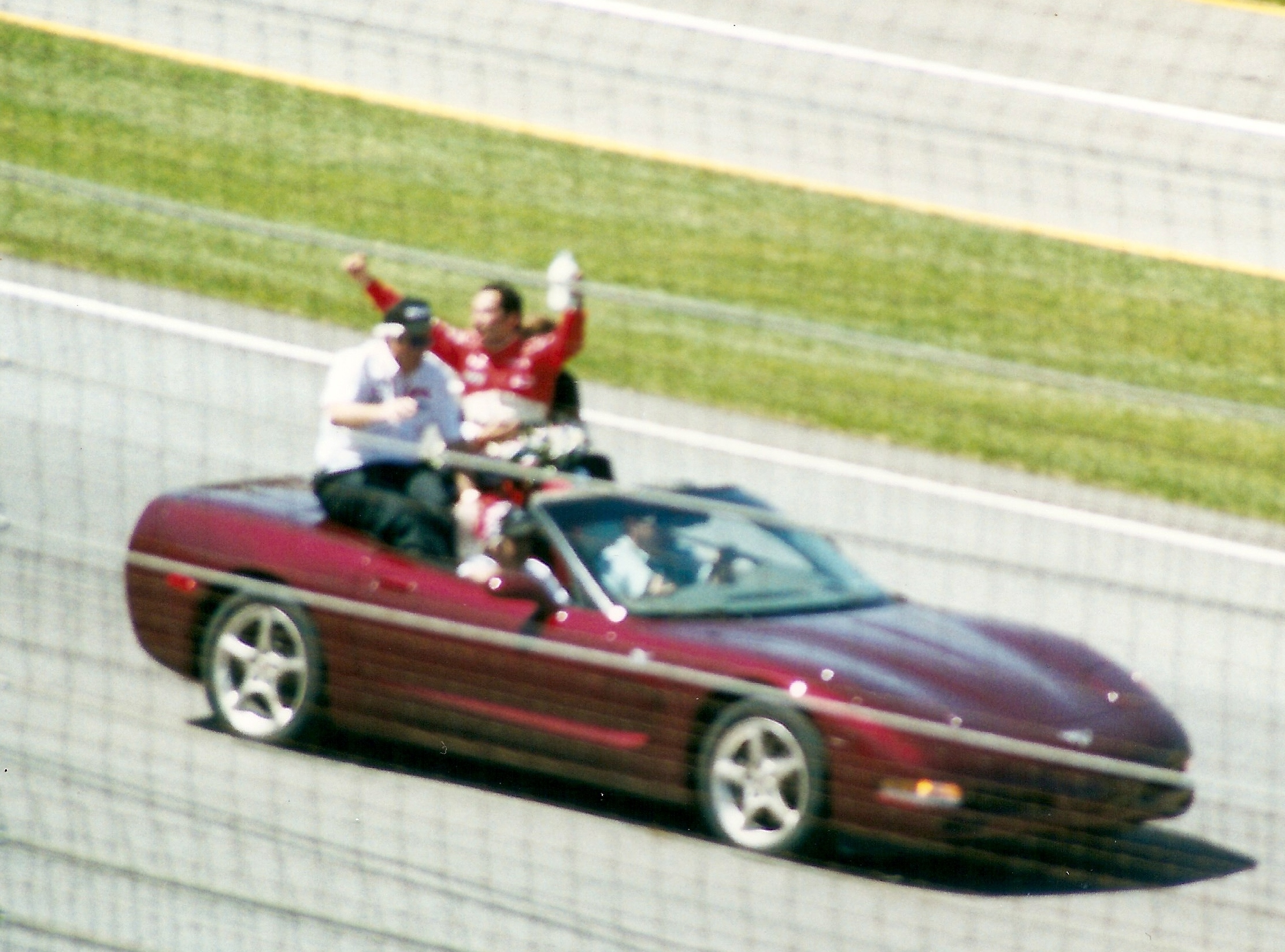 Hélio Castroneves celebrates his victory in the 2002 Indianapolis 500